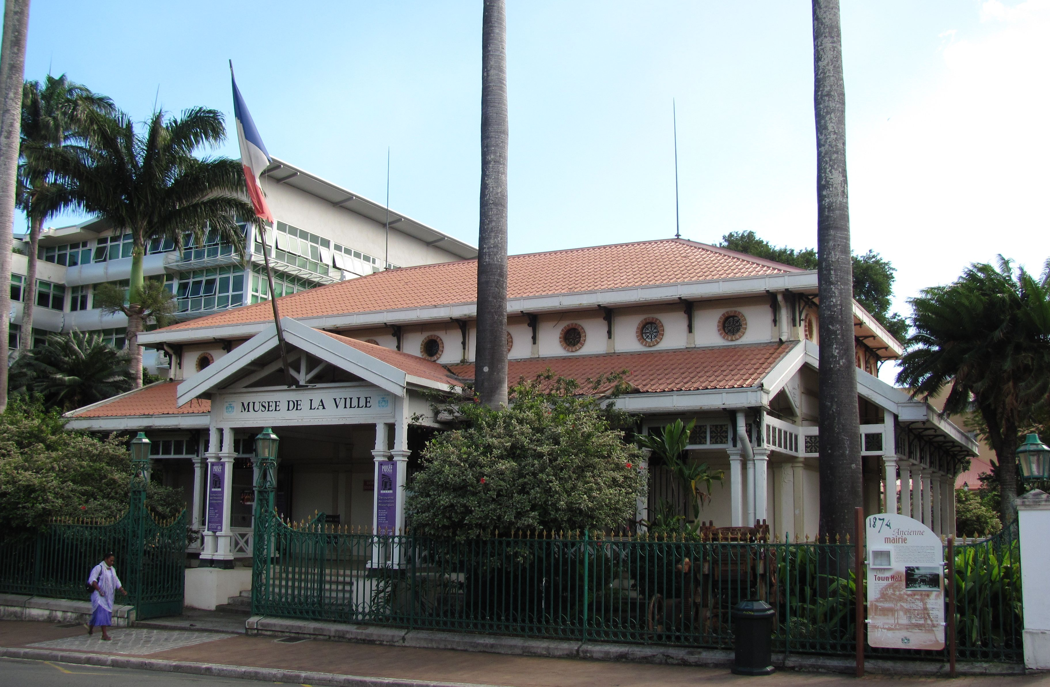 Musée de la Villa de Nouméa, Nouméa, New Caledonia